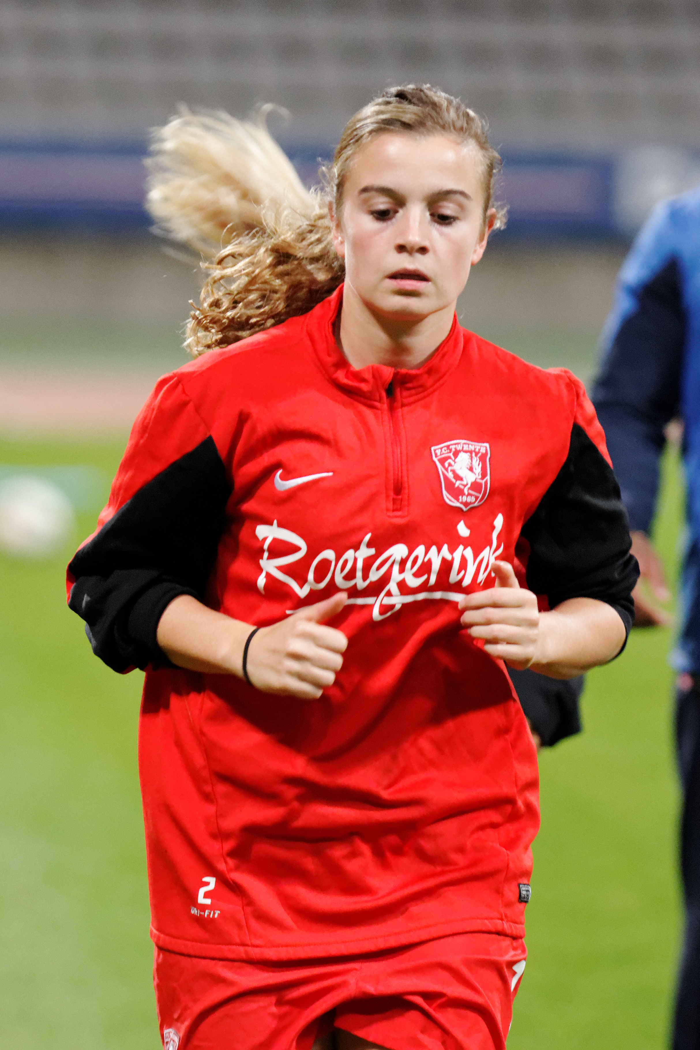 UEFA Women's Champions League, PSG - Twente, 15 October 2014